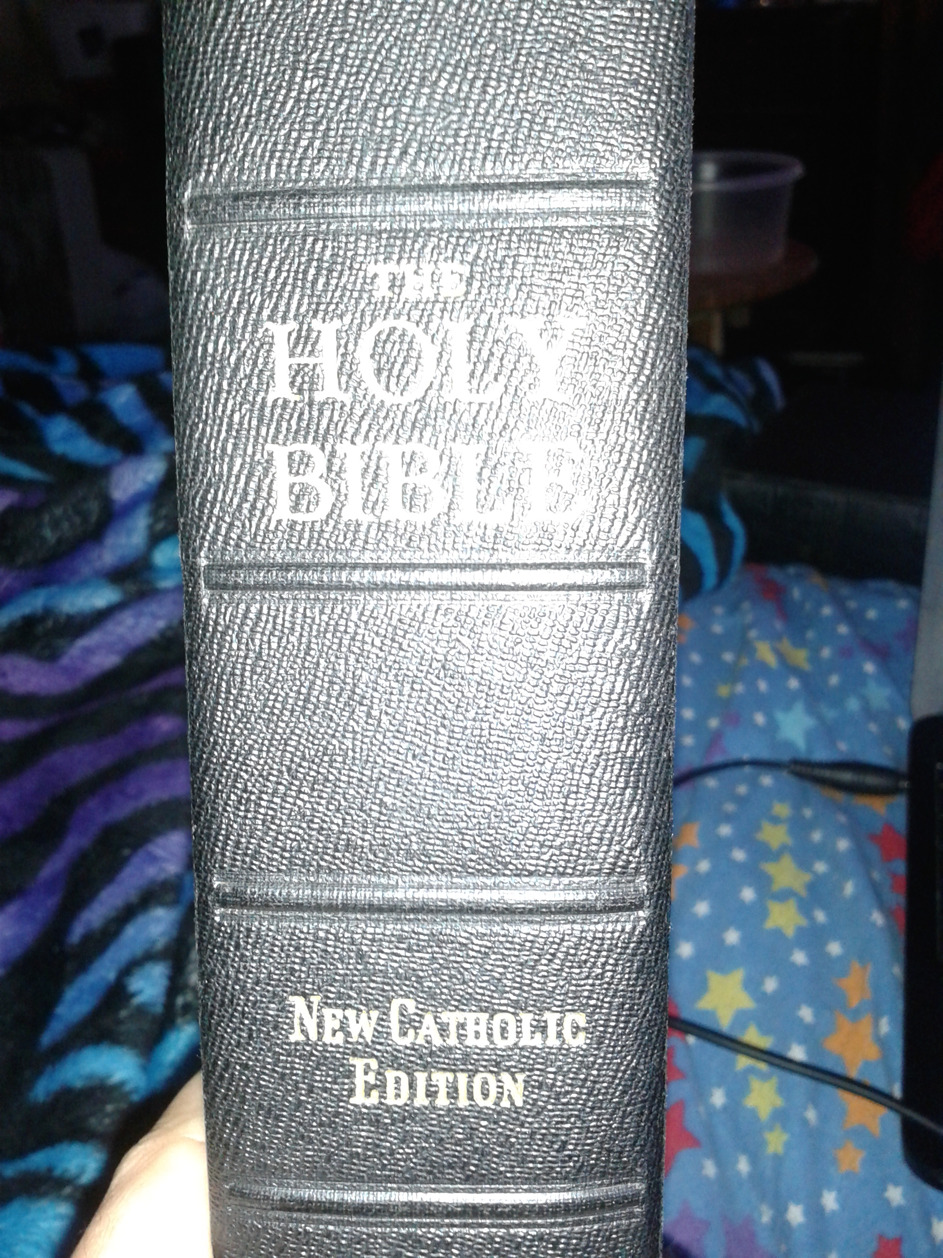 Picture of Spine of the Bible